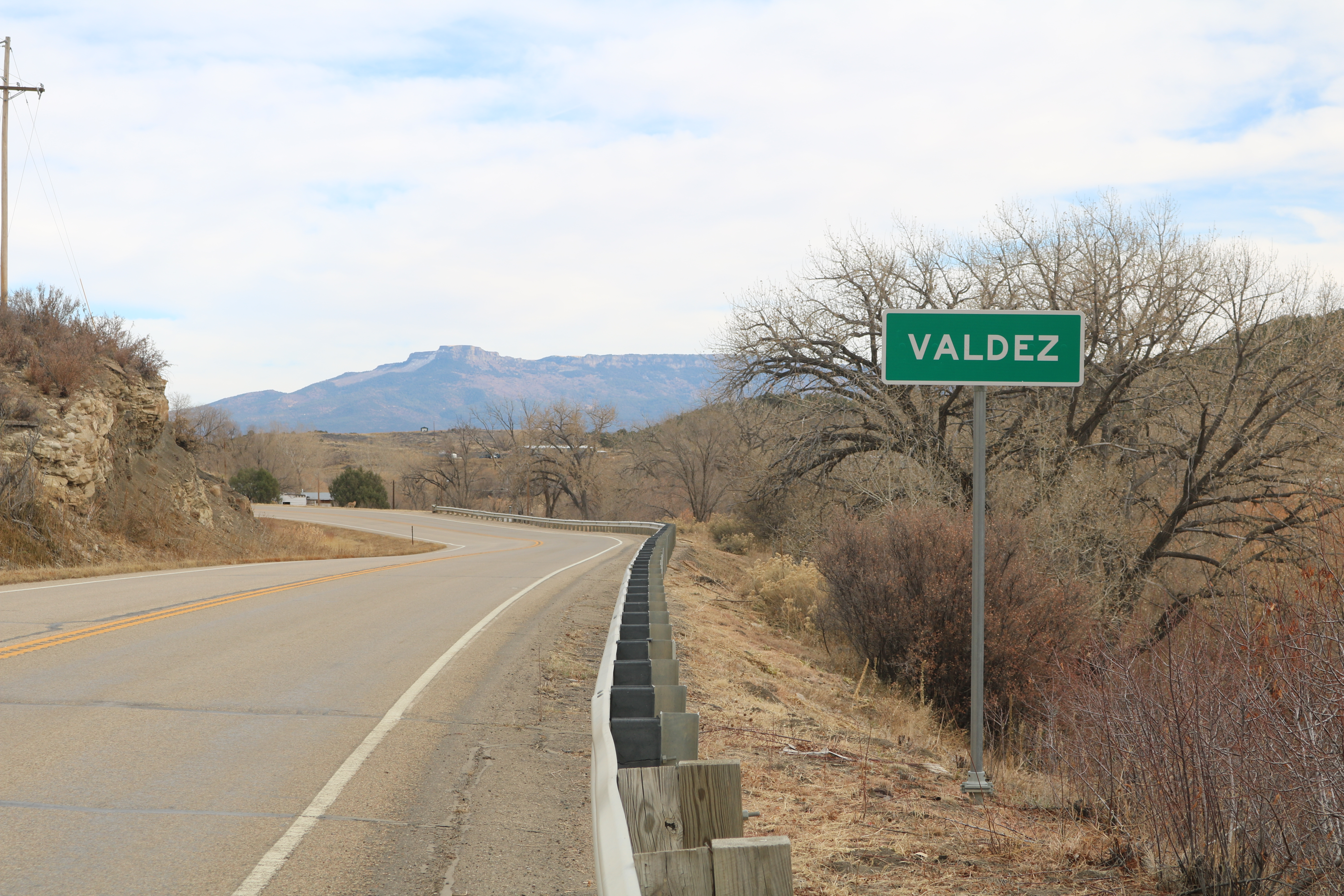 The community of Valdez, Colorado, in Las Animas County. The view is to the east along Colorado State Highway 12.